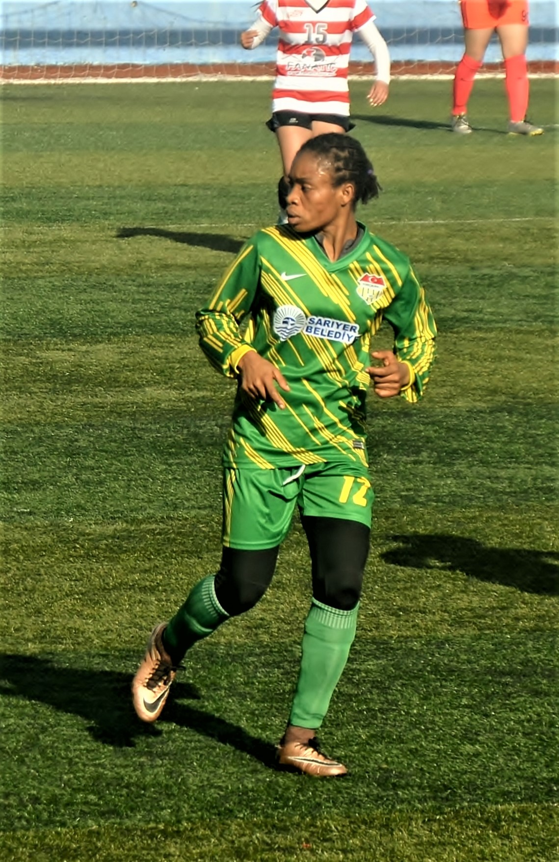 Ijeoma Queenth Daniels from Nigeria playing for Kireçburnu Spor in the 2017-18 Turkish Women's First Football League